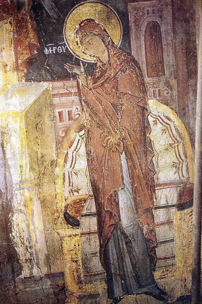 Saint Peter and Paul Church in Aiginio Libanovo Saint Mary in a Detail from Annunciation Scene Fresco XV C